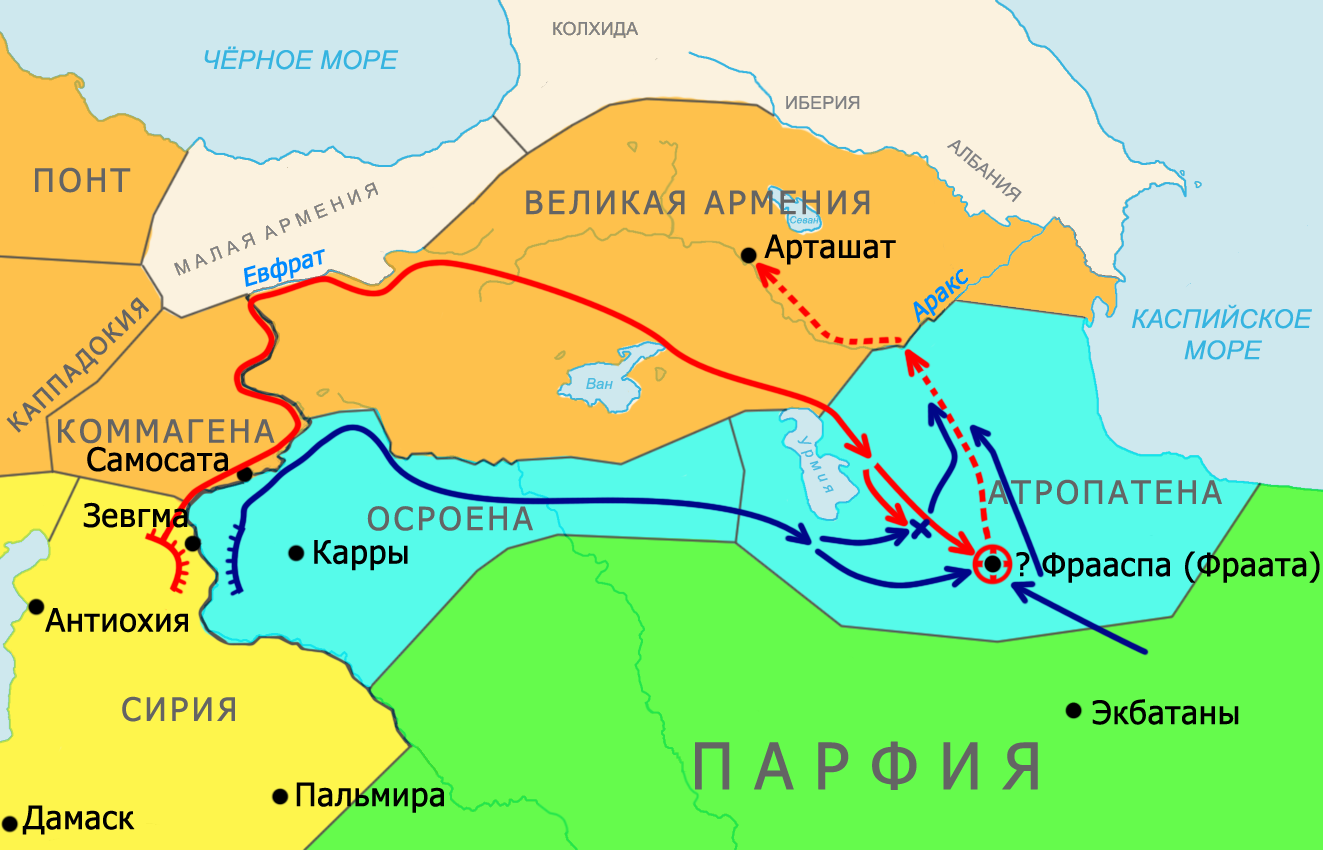 Parthian campaign of Mark Antony, 36 BC